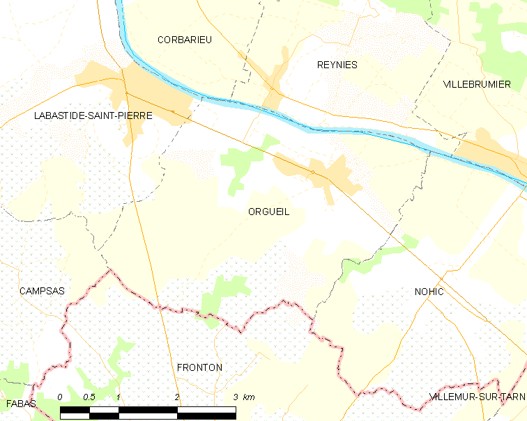 Map of French municipality Orgueil